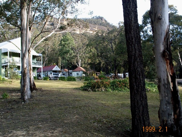 Ralph Holland - own photo.